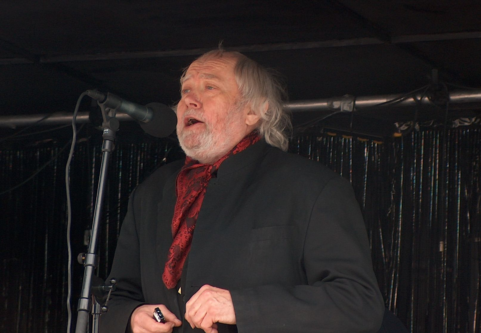 Oddvar Torsheim, Norwegian painter, drawer and musician. (Cut version of Image:Oddvar Torsheim.JPG)